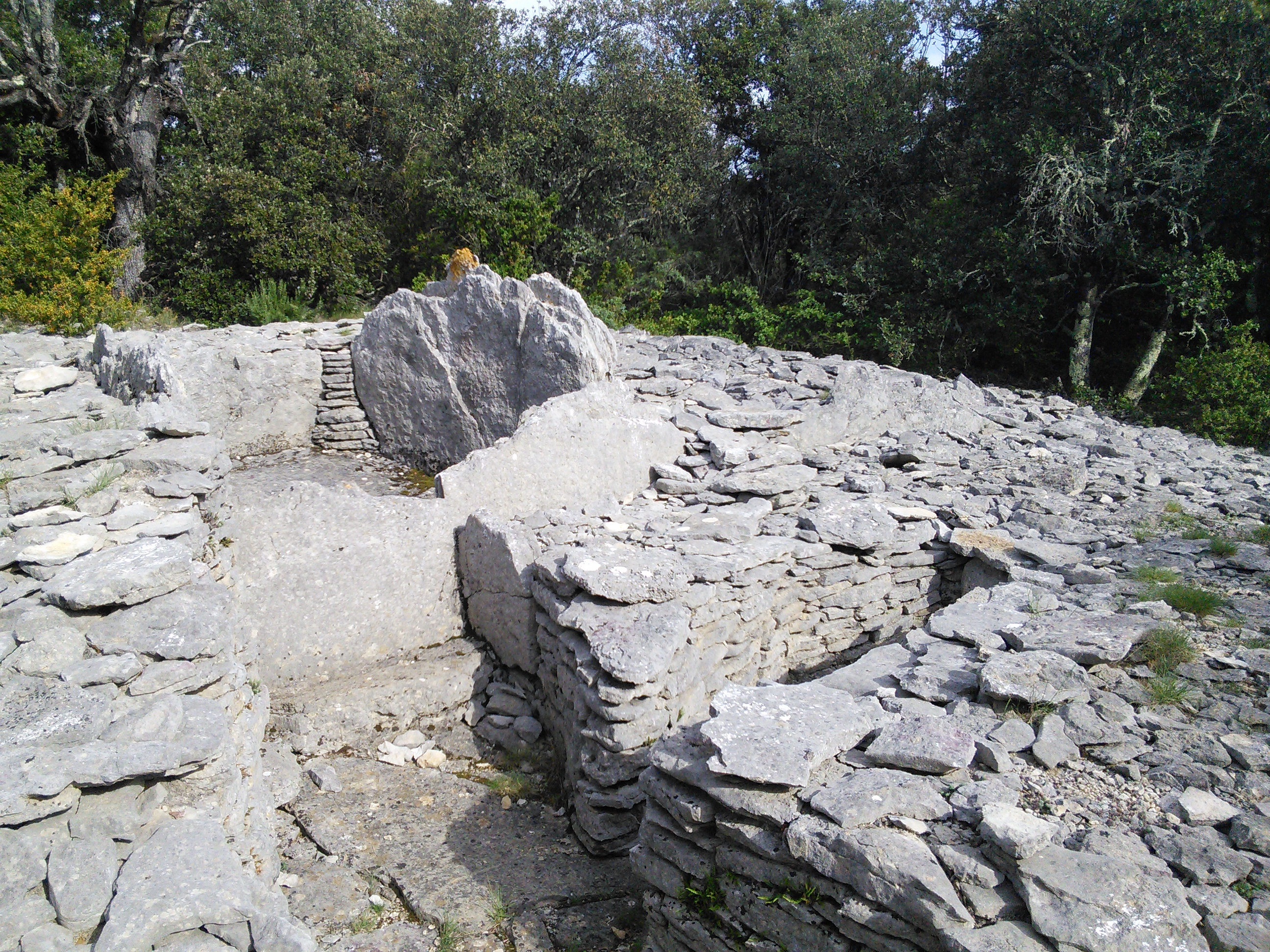 "Dolmens de Ferrières" located in the municipality of Ferrières-les-Verreries (Hérault - France).